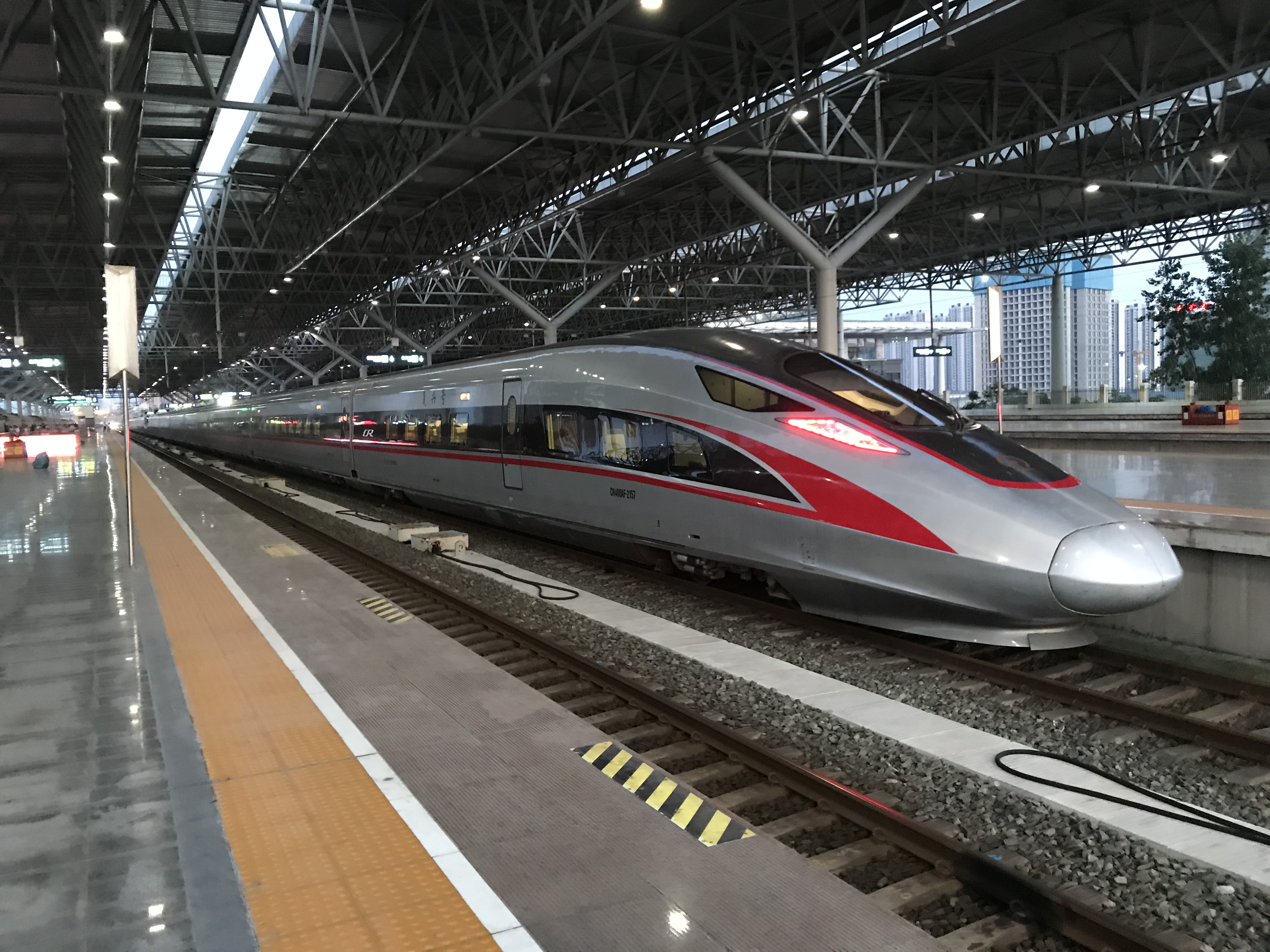 201908 CR400AF-2157 at Yichangdong Station